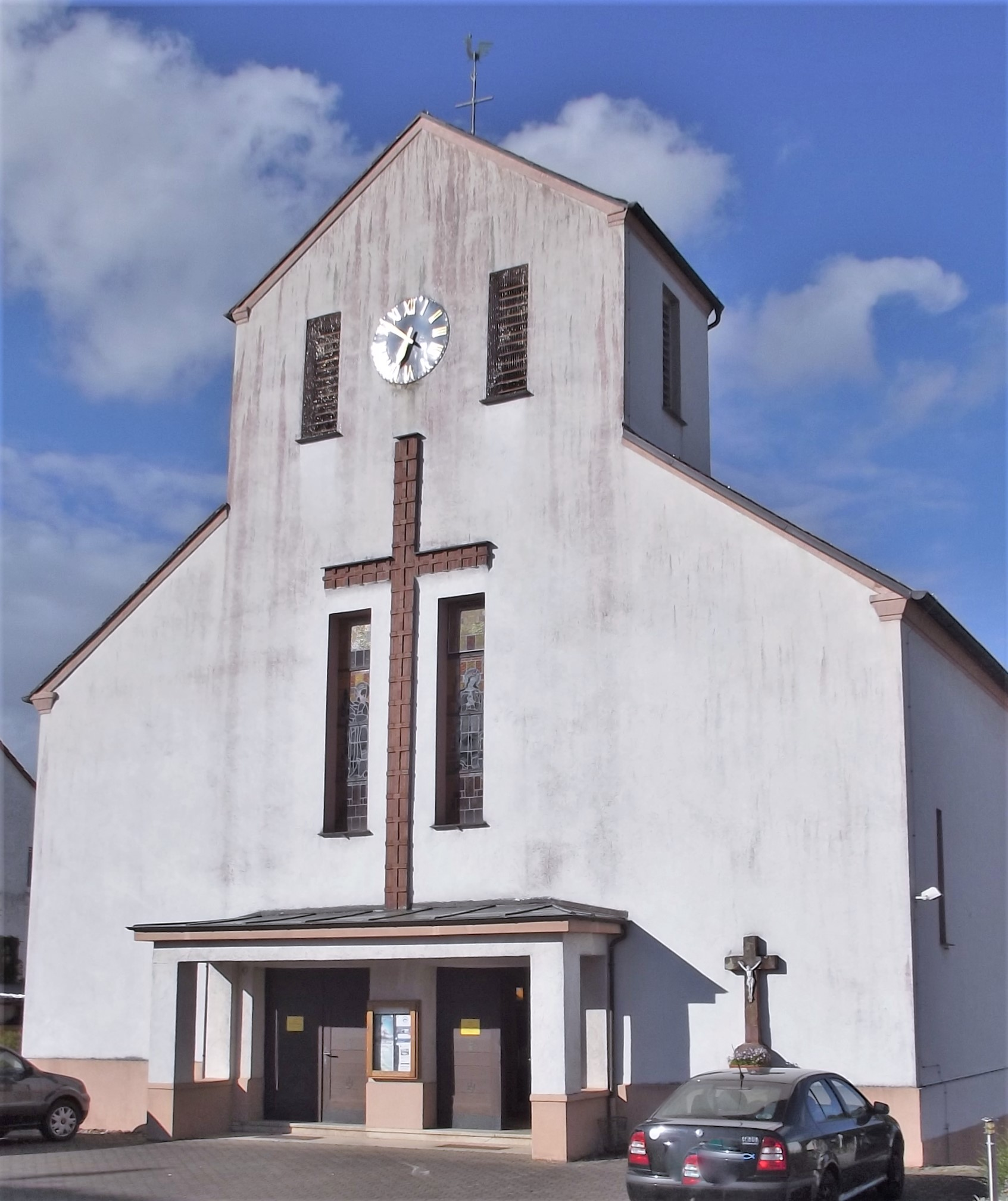 Exterior of the roman catholic church in Michelbach, Saarland